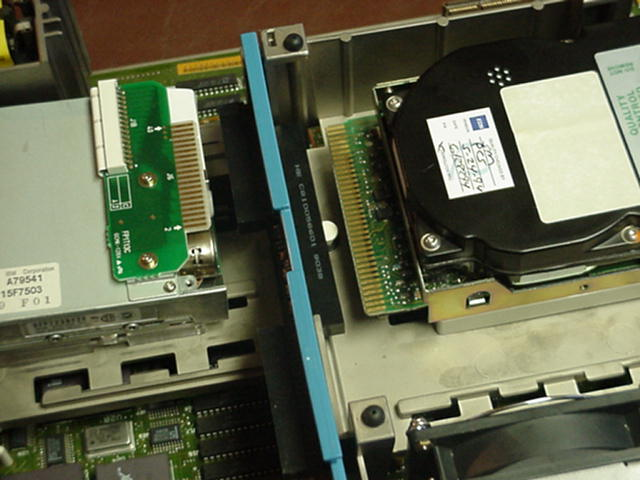 Internal design of the IBM PS/2 Model 70, showing the riser card used to connect the floppy drive and the hard drive. The riser card contains no chips and plugs straight into the motherboard (or "planar" as IBM liked to call it). All power and data are passed to the drives through the single drive card-edge connector. The model 70 did allow for a 5.25-inch internal hard drive but provided no way to install or use the new-fangled (at the time) CD-ROM drive.